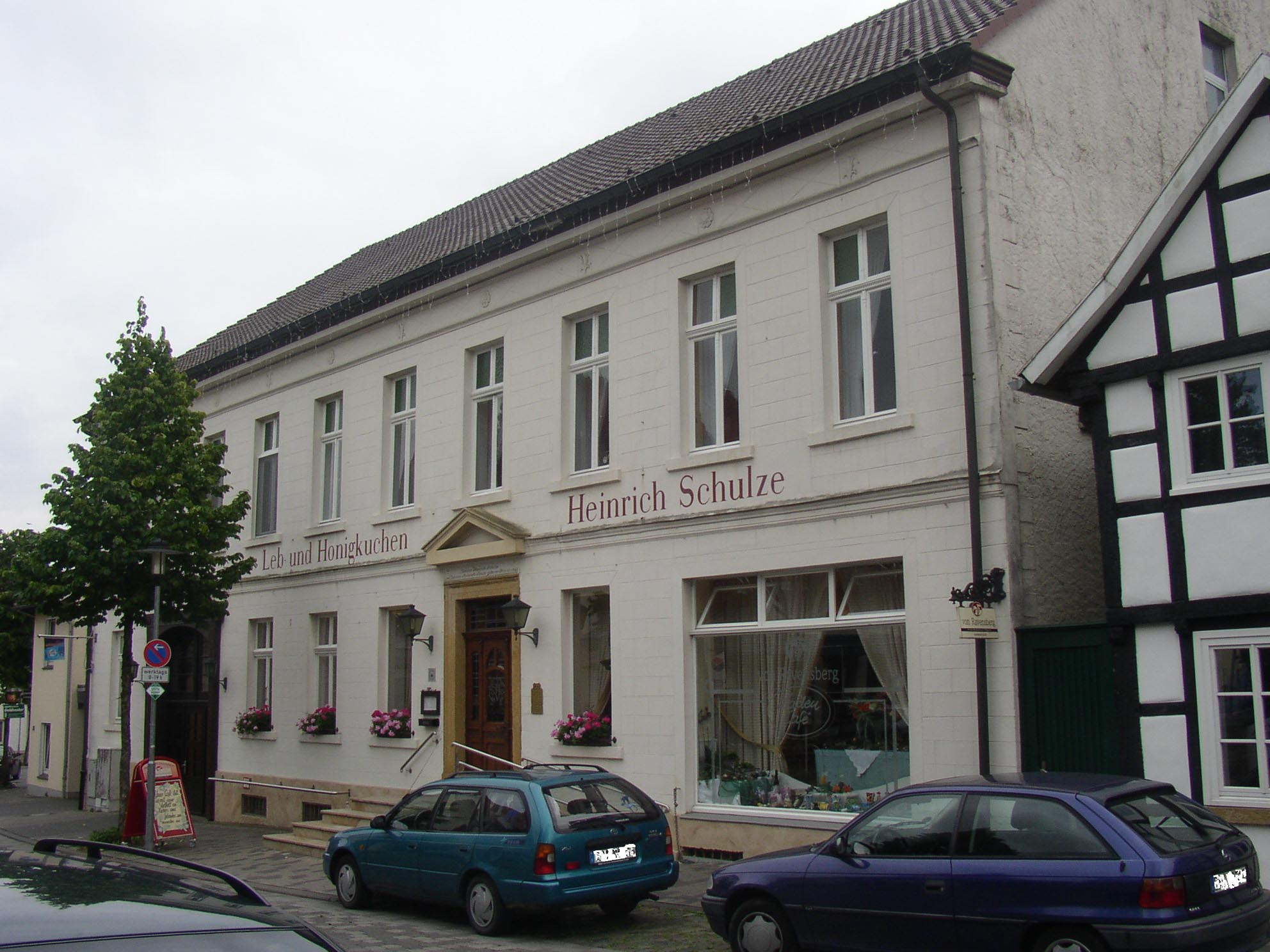 Schulze bakery in Borgholzhausen, County of Gütersloh, Germany